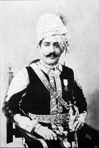 Photograph of Maharaja Ajit Singh of Khetri.